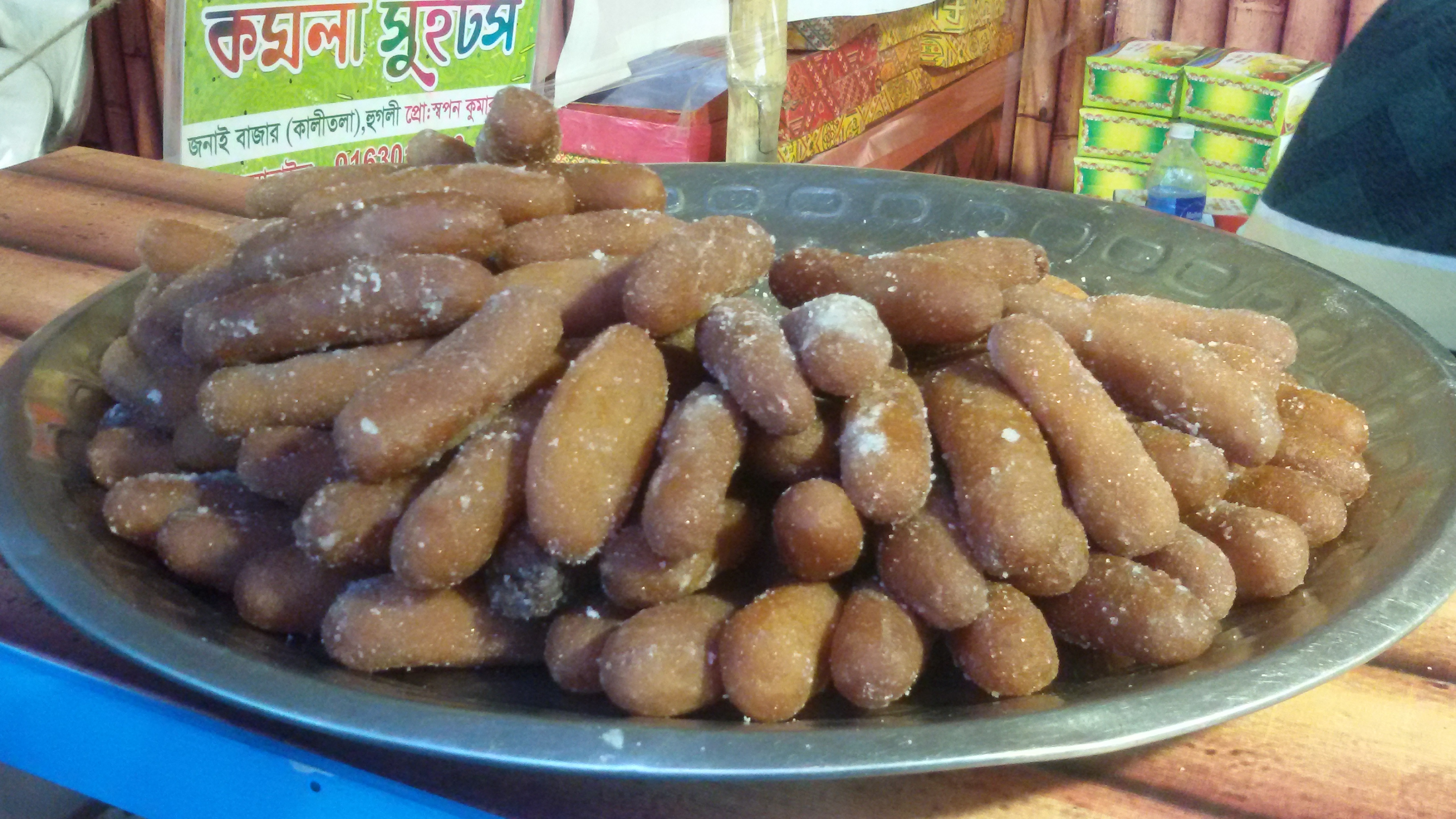 Photograph of nikhuti from Janai, Hooghly District, West Bengal. Nikhuti is one of the popular sweetmeats of West Bengal.